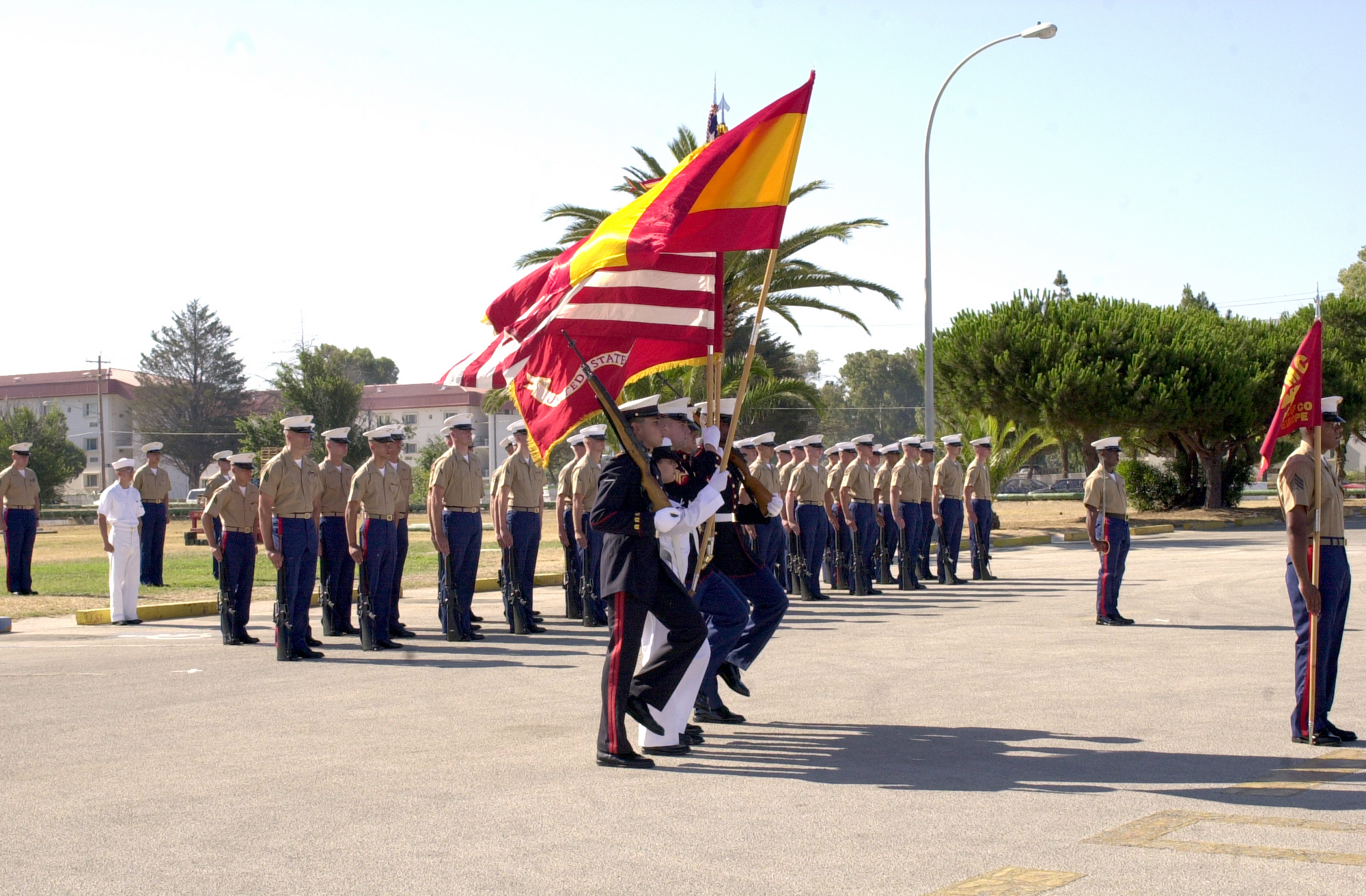 Naval Station, Rota, Spain (Jul. 12, 2002) -- The joint U.S.-Spanish Color Guard aboard Naval Station, Rota, parades the colors during the Change of Command and Marine Corps Security Force Europe re-designation ceremony held aboard the station. U.S. Navy photo by Photographer’s Mate 1st Class Raymond Enriques. (RELEASED)